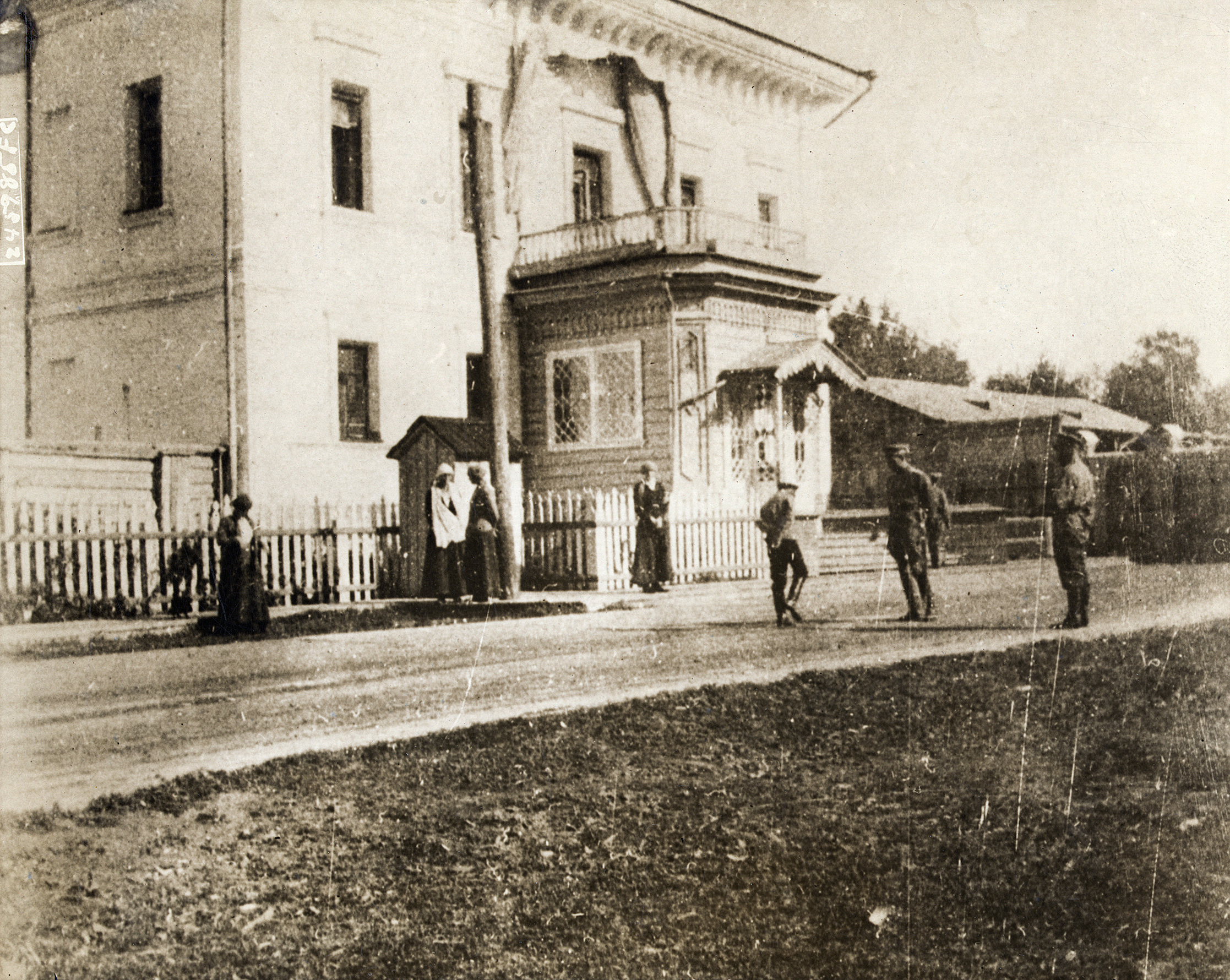 Photograph shows Czar Nicholas II and family outside the Governor's House during their internment at Tobolsk, late August 1917 to April 1918. Before the main entrance of the house of the governor at Tobolsk. The four figures to the West are the Grand Duchesses, daughters of the Czar. The boyish figure in the centre is the Czarevitch, to his right is the office of the guard. To the extreme right is the Czar.